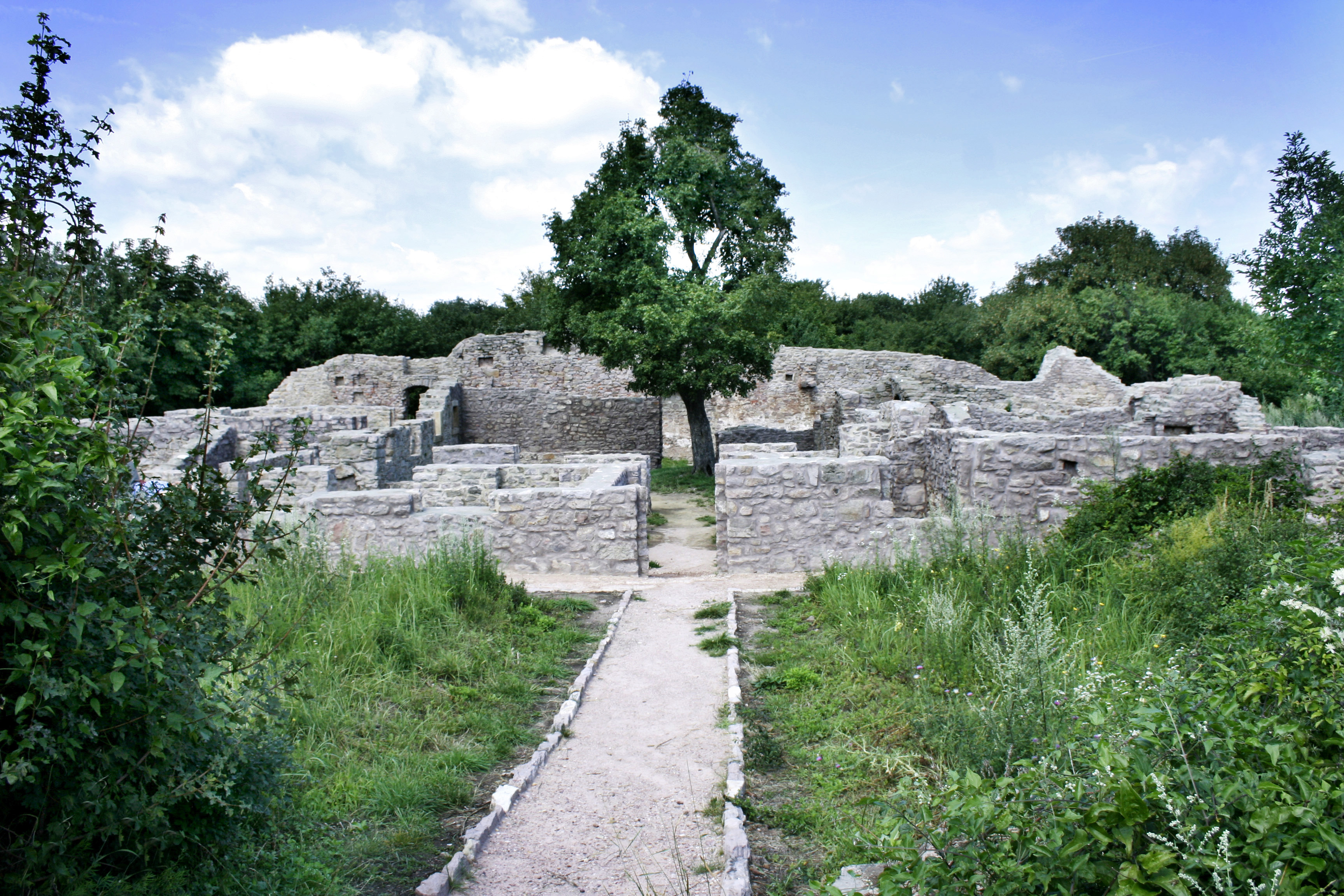 Jakab Hill's Pauline Monastery Ruins - XV. century - Mecsek, South-Hungary